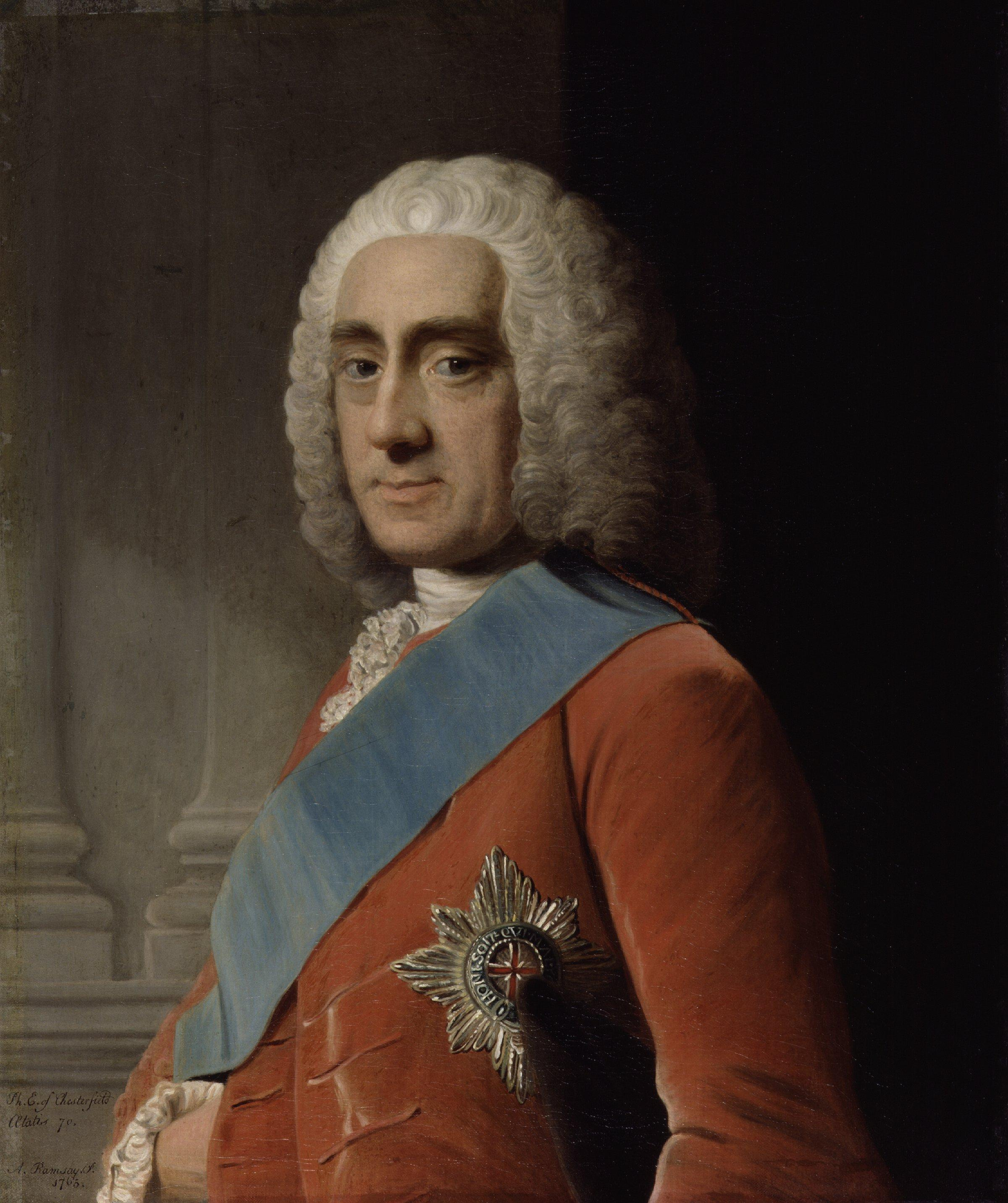 All images in this bath have been confirmed as author died before 1939 according to the official death date listed by the NPG.